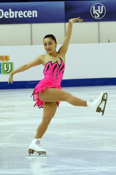 Photos – Junior World Championships 2016 – Ladies (Wakaba HIGUCHI JPN – Bronze Medal)